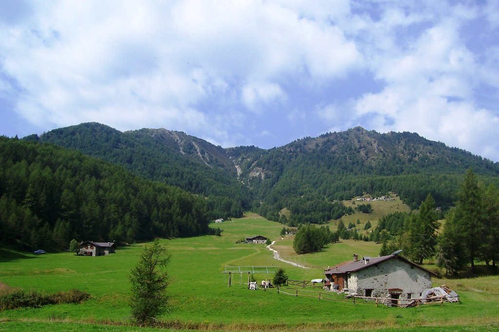 Mount Padrio. Val Camonica - Val Tellina